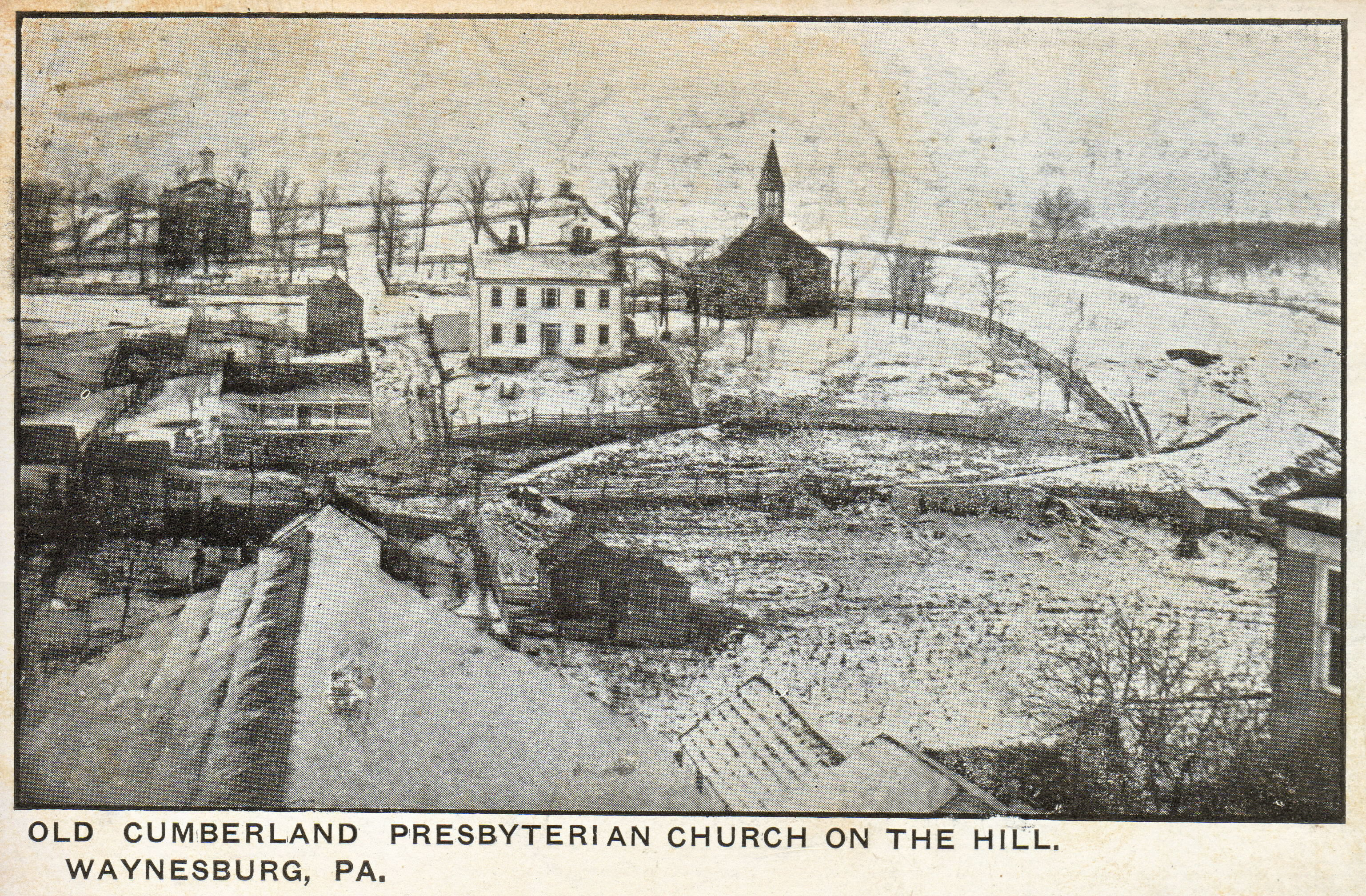 c. 1865 photo of Waynesburg, Greene County, Pennsylvania. From the Greene County Historical Society on Flickr. Their metadata follows: Greene County, Pennsylvania Photo Archives Project Follow GCHS-AN027-0001-0115 Circa 1865. Real-photo postcard labeled "Old Cumberland Presbyterian Church On The Hill" in Waynesburg, Greene County, Pennsylvania. Photograph looking north from High Street toward the Commons (later the parks) in Waynesburg, Greene County, Pennsylvania. On the upper-left is Union School, later known as North Ward. The church on the upper-right is the old Cumberland Presbyterian, also known as the "Church on the Hill." Postmarked 1908, Washington, Pa. Original, no photographer or printer listed. Included in the Mrs. Niemi George Post Card Collection, archived at the Greene County Historical Society (918 Rolling Meadows Road, P.O. Box 127; Waynesburg, Pennsylvania 15370). Researched and digitized for the Greene Connections: Greene County, Pennsylvania Photo Archives Project between 2005-2012.